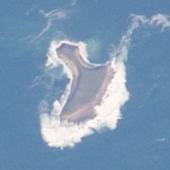 Moemoshiri-shima